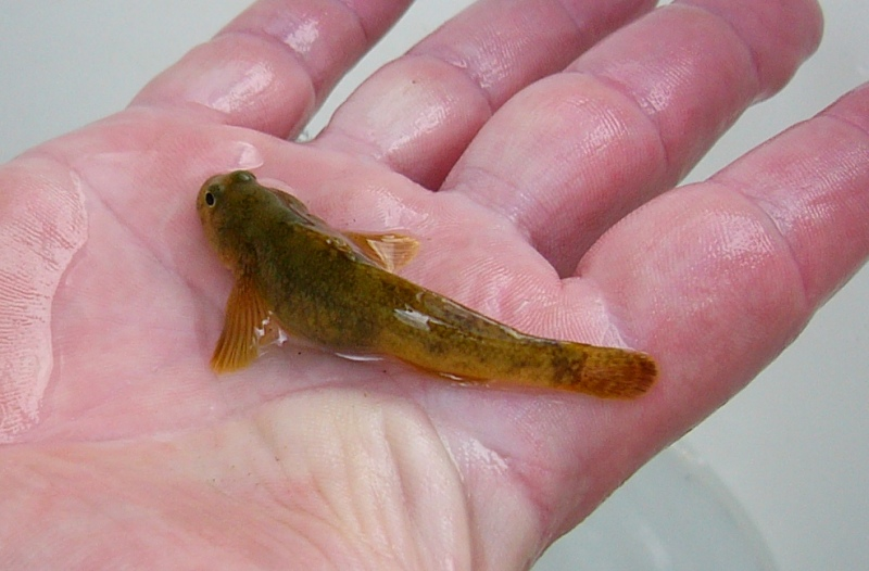 Padogobius nigricans photographed in an Arno tributary (Tuscany, central Italy). Photo by Marco Cruscanti